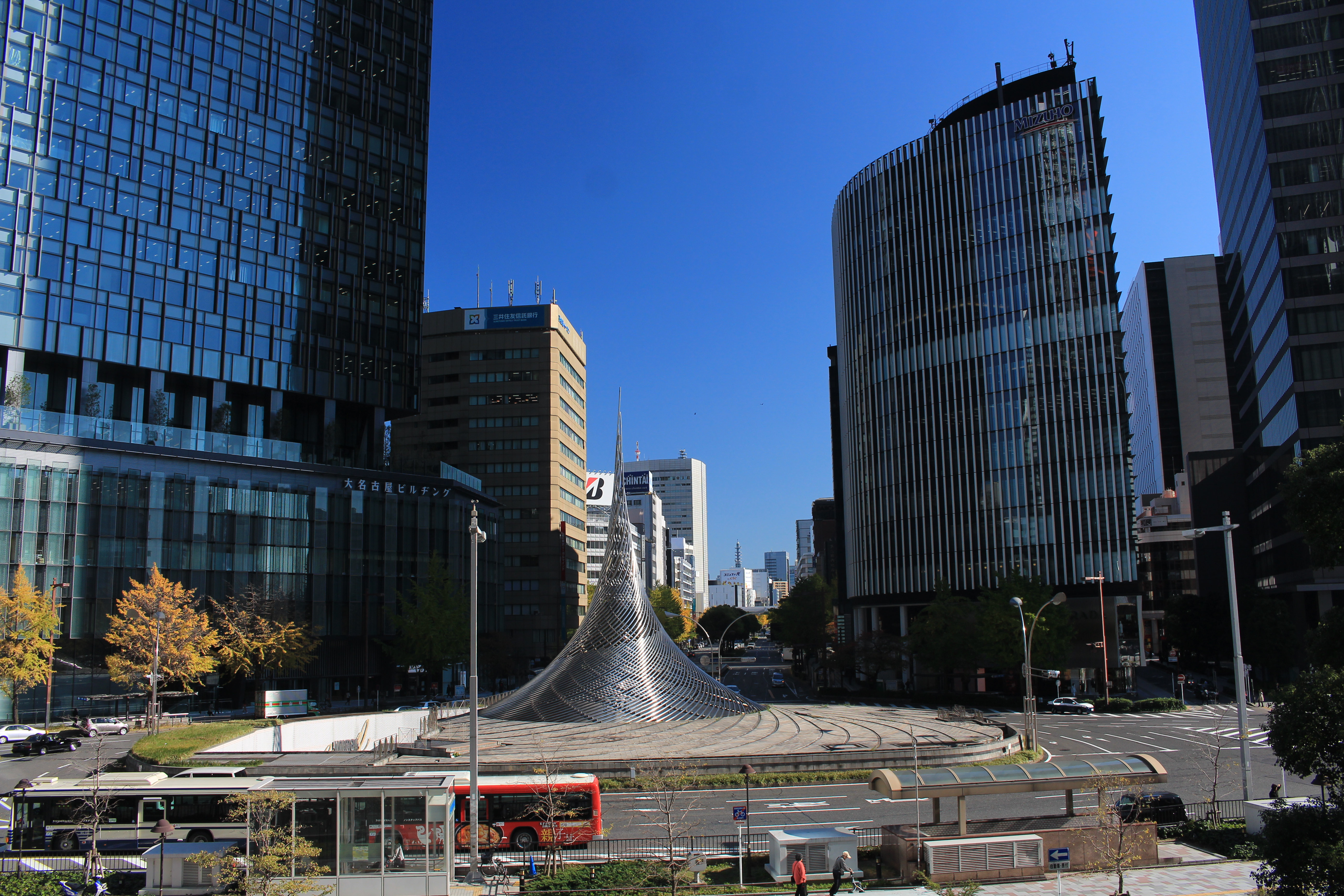 Hishō, a monument in Meieki, Nakamura-ku, Nagoya, Aichi prefecture, Japan.